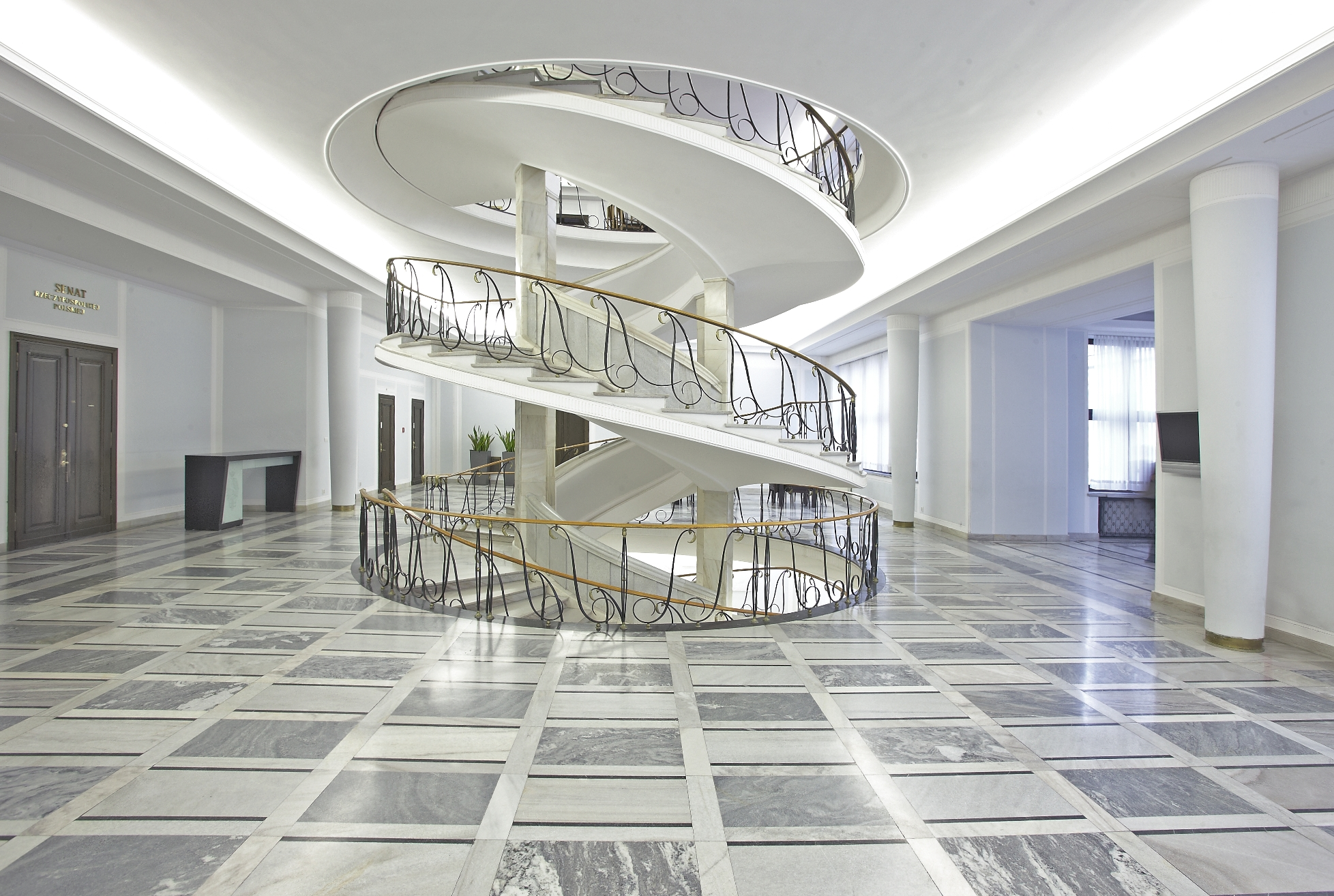 Oval staircase in the Polish Senate